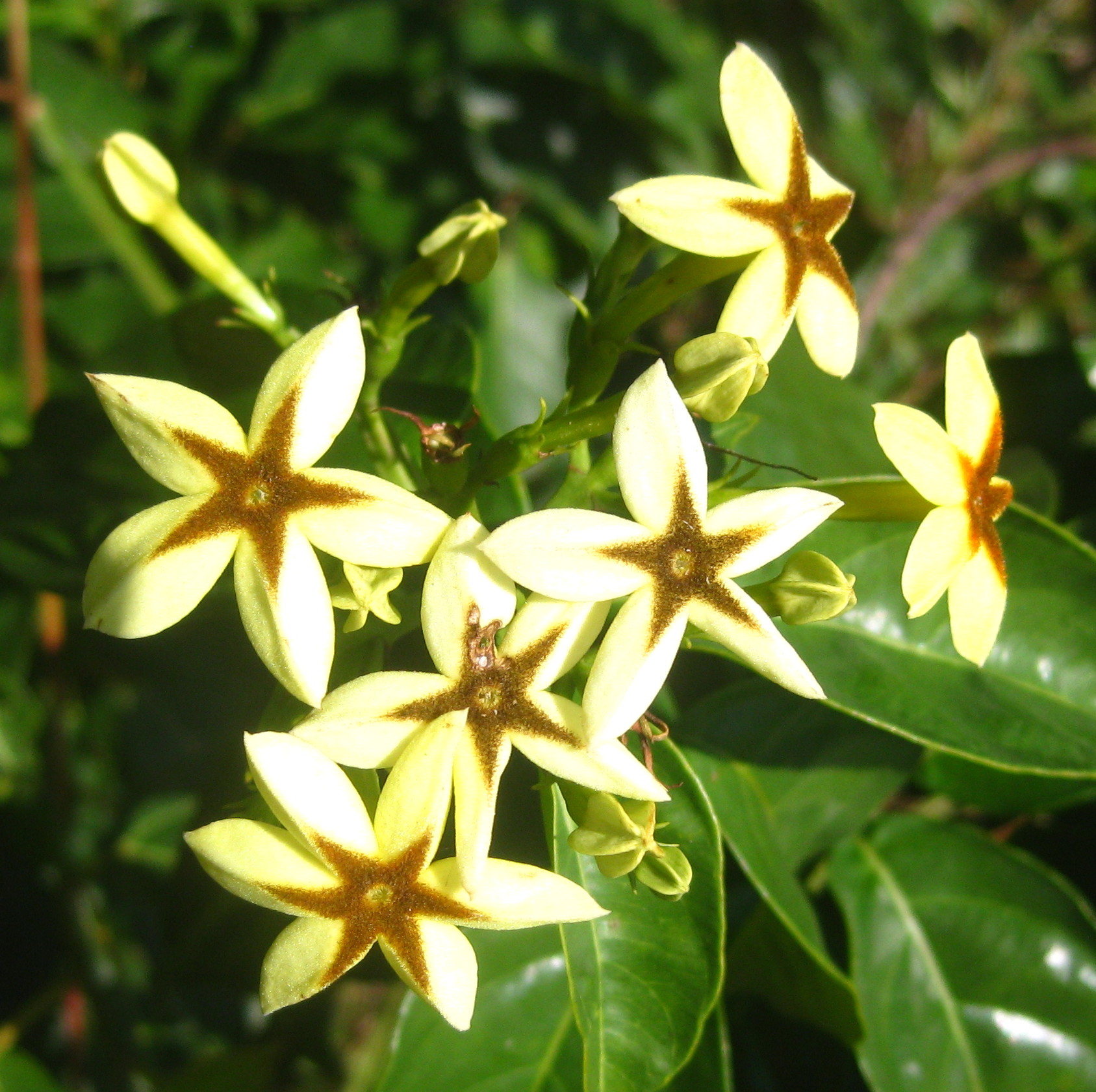 Mussaenda arcuata (Rubiaceae) alongside the road up to Tsetserra in Mozambique.